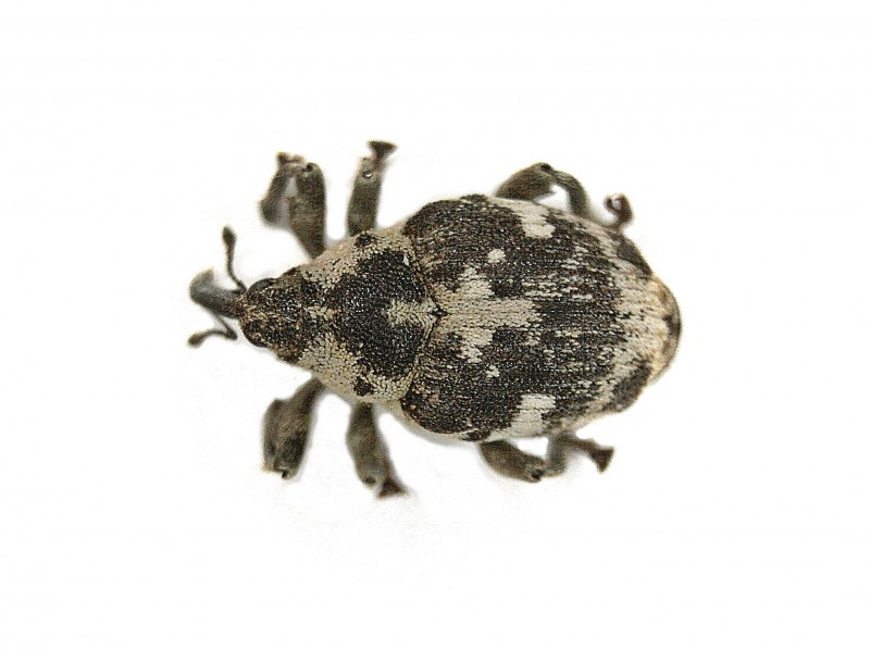 Hadroplontus litura (Curculionidae) - (imago), Elst (Gld) - De Park, the Netherlands